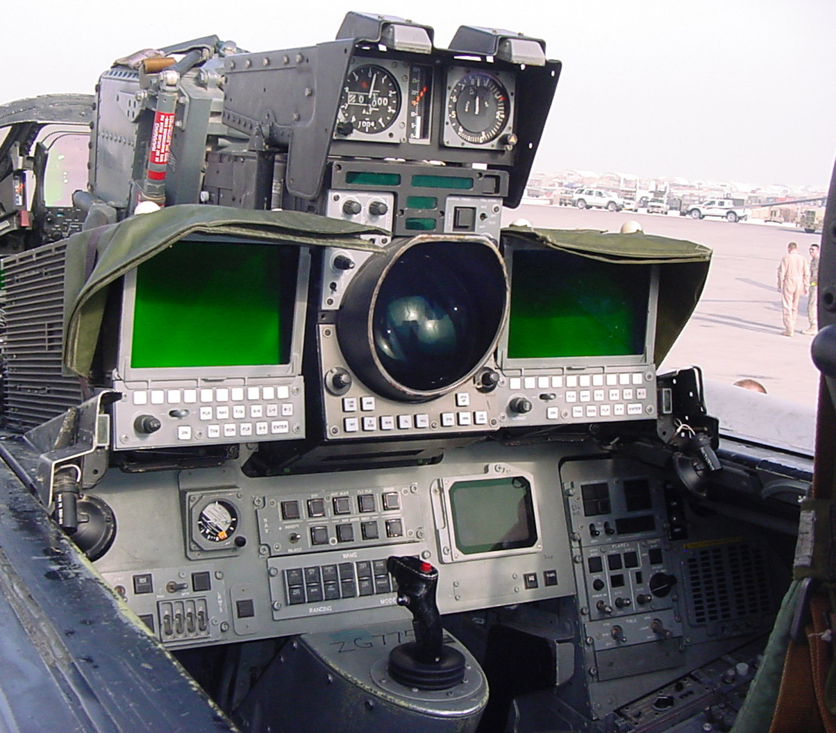 Photo taken at Al-Udeid Air Base, Qatar during Operation Iraqi Freedom.